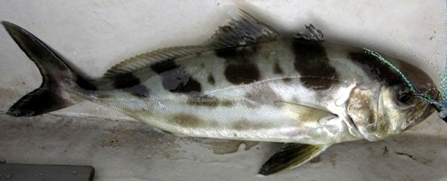 Seriolina nigrofasciata, Darwin